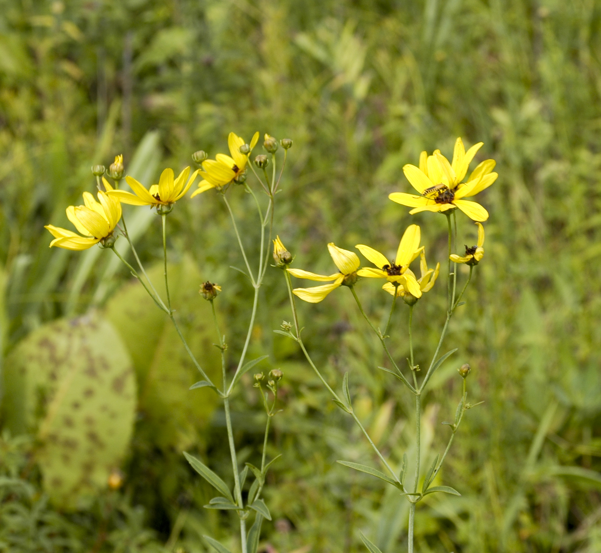 image of Coreopsis tripteris TALL COREOPSIS at the James Woodworth Prairie Preserve - a flower head in full bloom